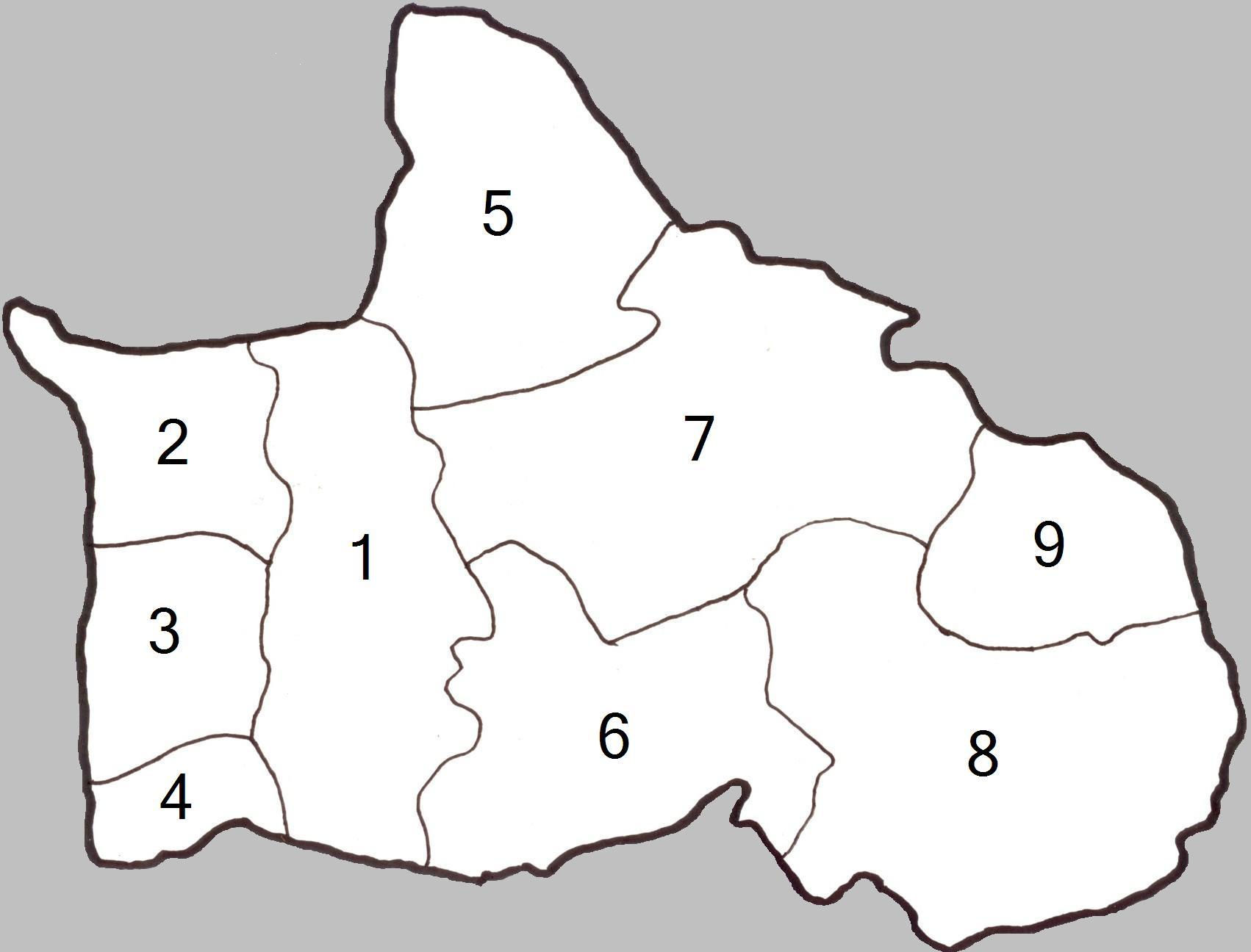 Map of Bang Krathum Disrict